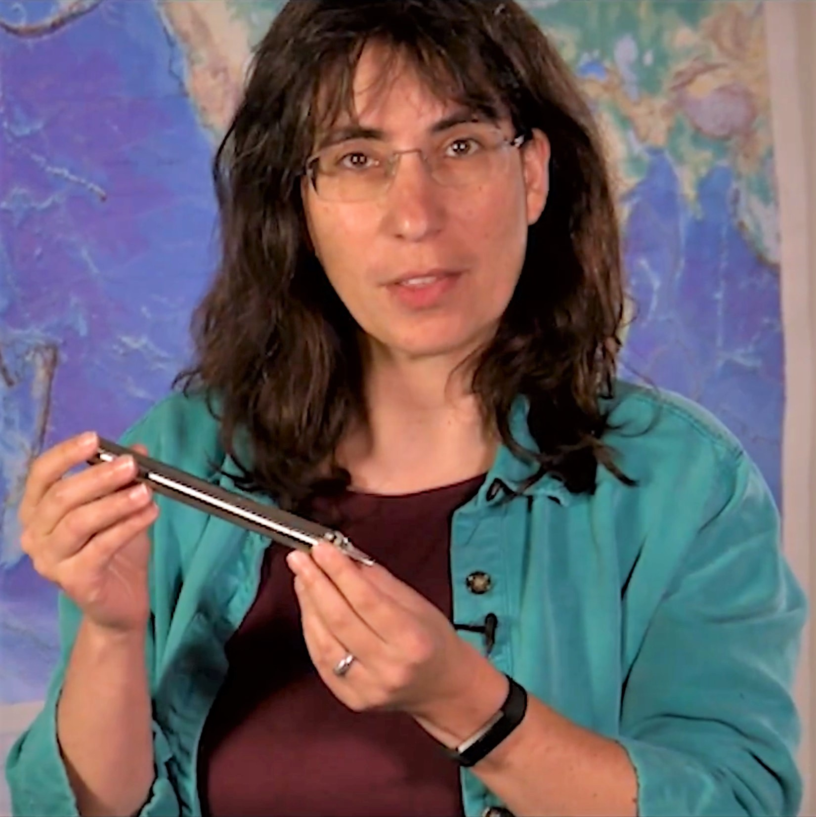 Emily Brodsky, professor of Earth and Planetary Sciences at UCSC, shows the type of thermometer used to take the temperature of the Japan Trench Fault, the same fault that triggered the 2011 Japan Thohoku